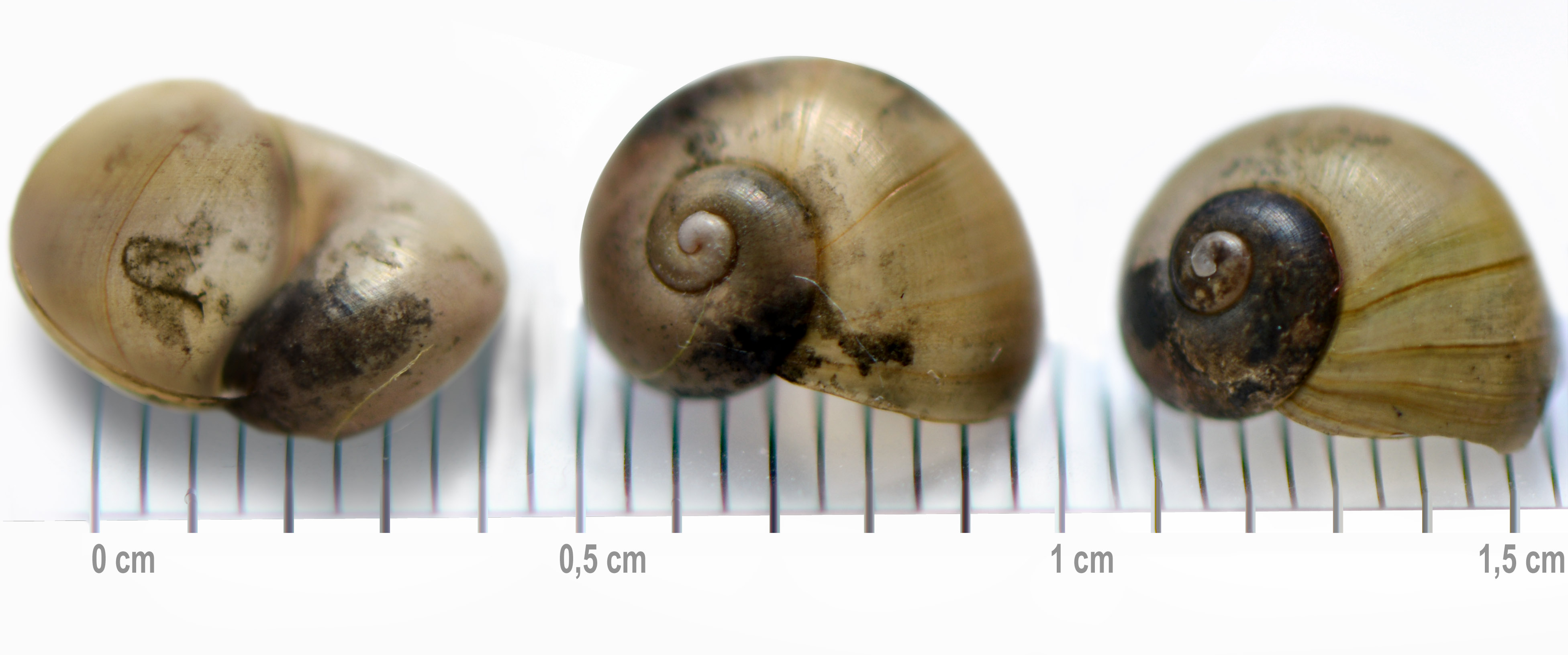 Young snails aquatic species Viviparus viviparus, the only species in which the female gives birth rather than lay eggs. The young develop in the shell of the mother. She died after the young people have left. Here young people were found dead (and their natural color) in the shell of the mother also died (because up out of the water with the surlaquelle branch it was fixed). There were two more young, but the shell was broken. Found in Lille on the edge of the Haute-Deûle on a part where the barges no longer circulate.